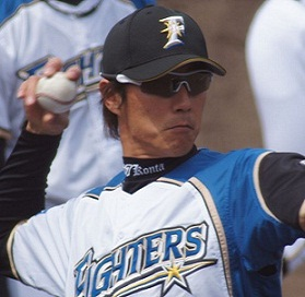 fighters_konta_67